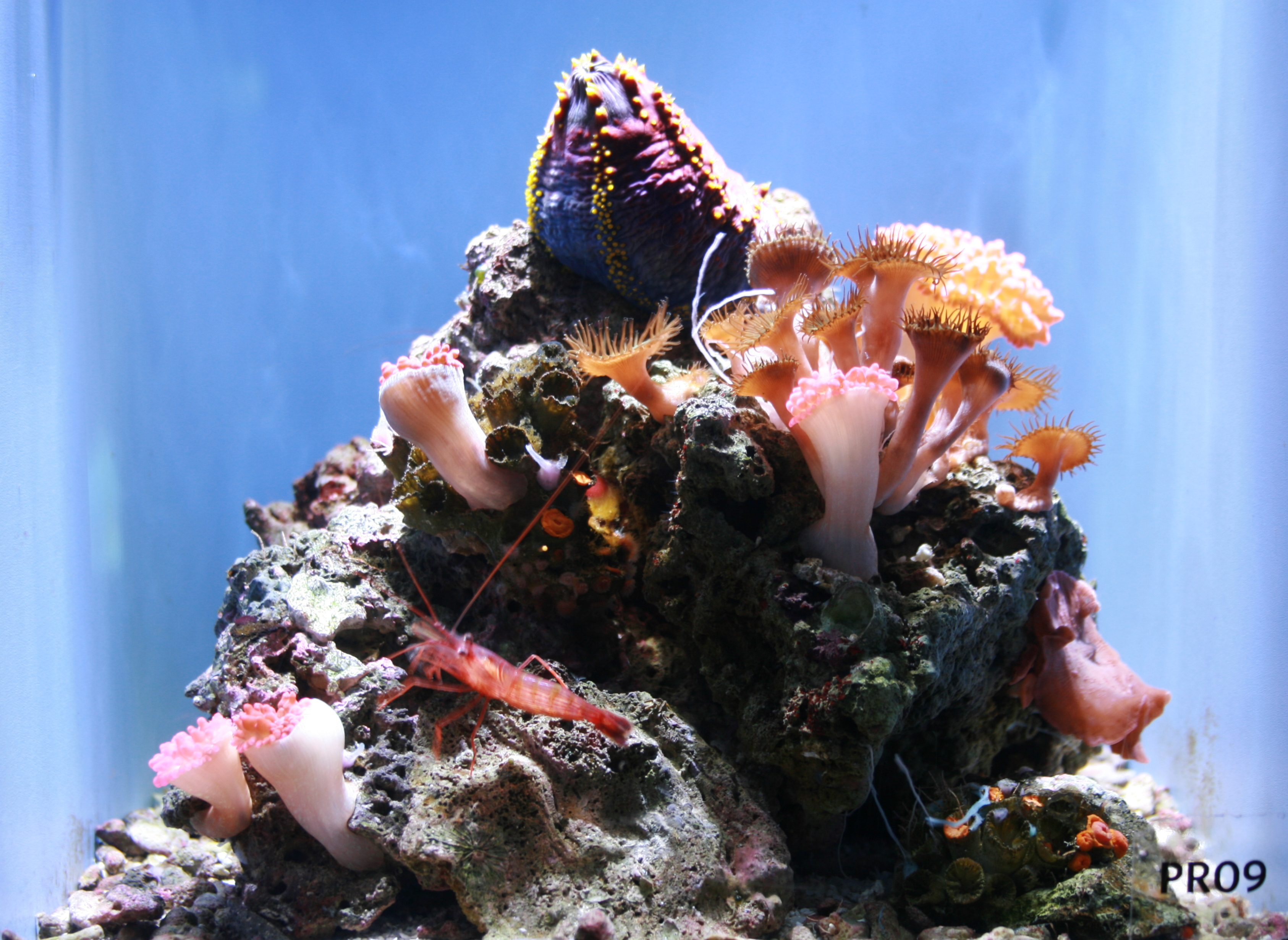 Philippine reef at the California Academy of Sciences. On the top is a sea apple.